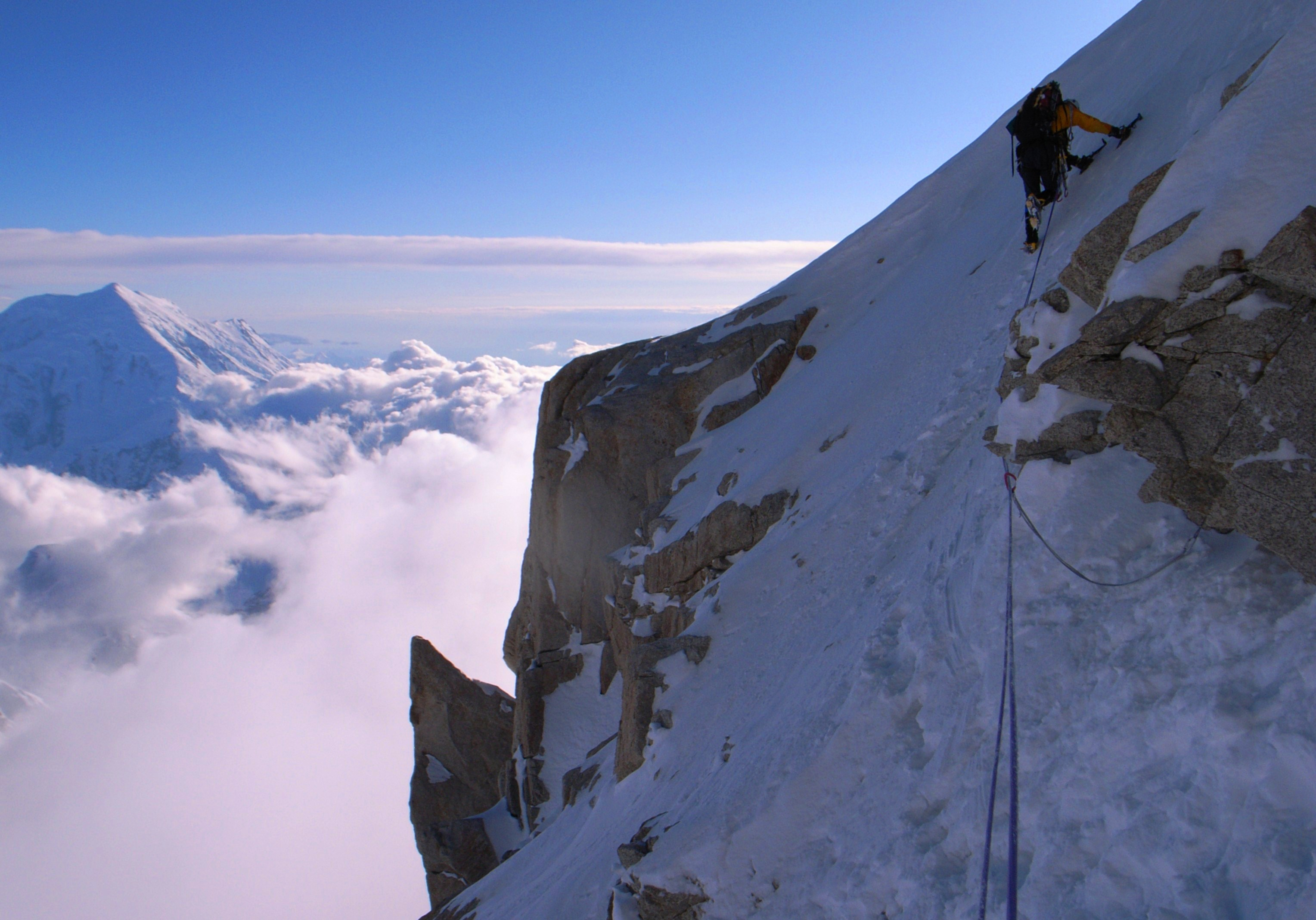 Climbing the Cassin Ridge of Denali in Alaska. Photo by: Kristoffer Szilas.